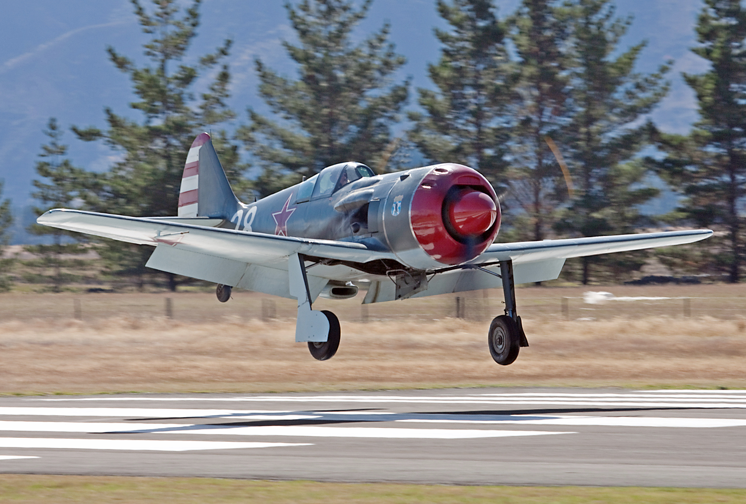 ZK-LIX Lavochkin La-9 "28white". Warbirds Over Wanaka, April 2010